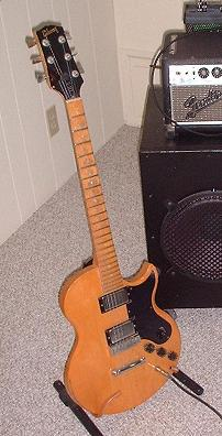 Gibson L6-S electric guitar